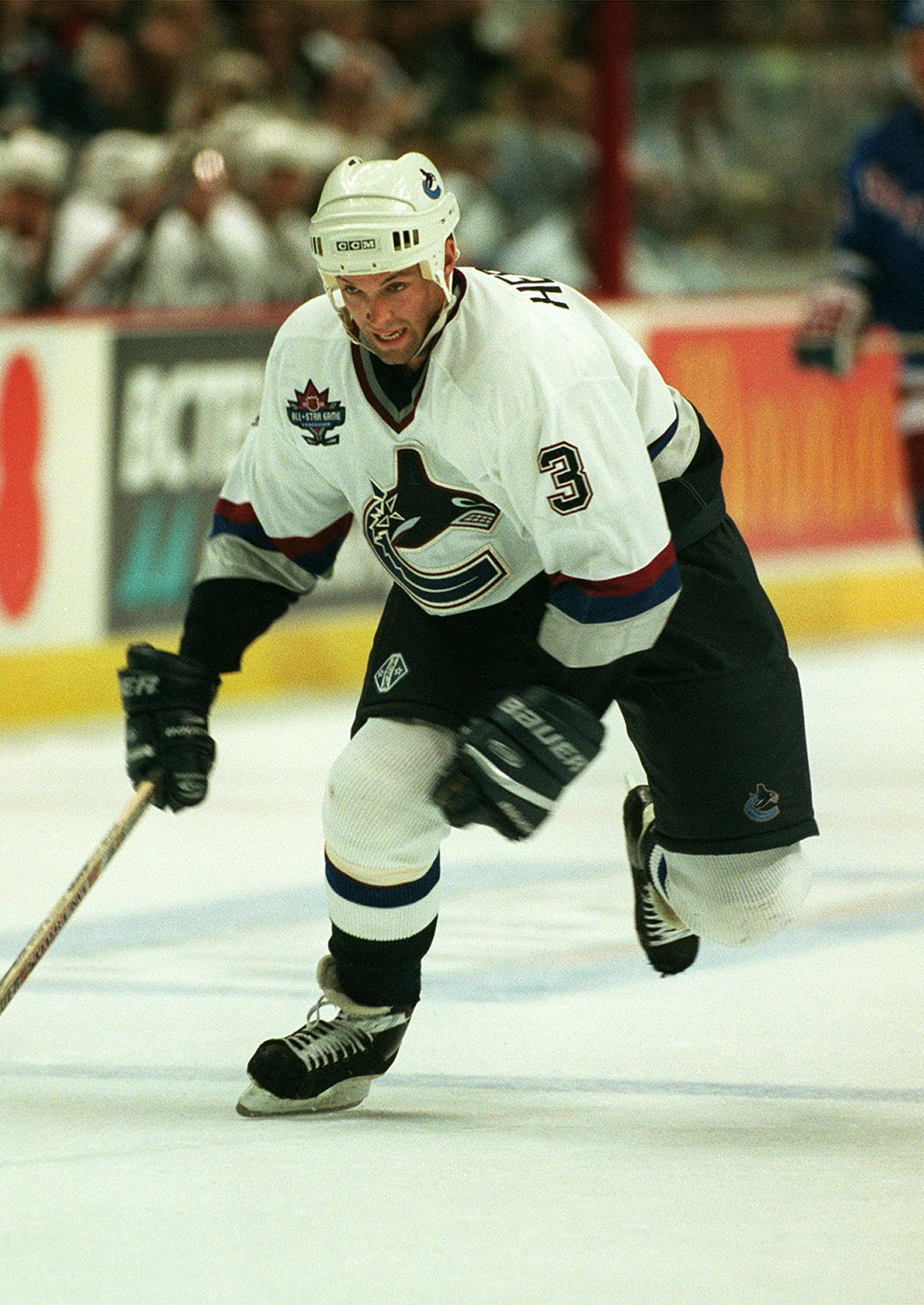 Bret Hedican, playing an NHL game for the Vancouver Canucks in Vancouver.